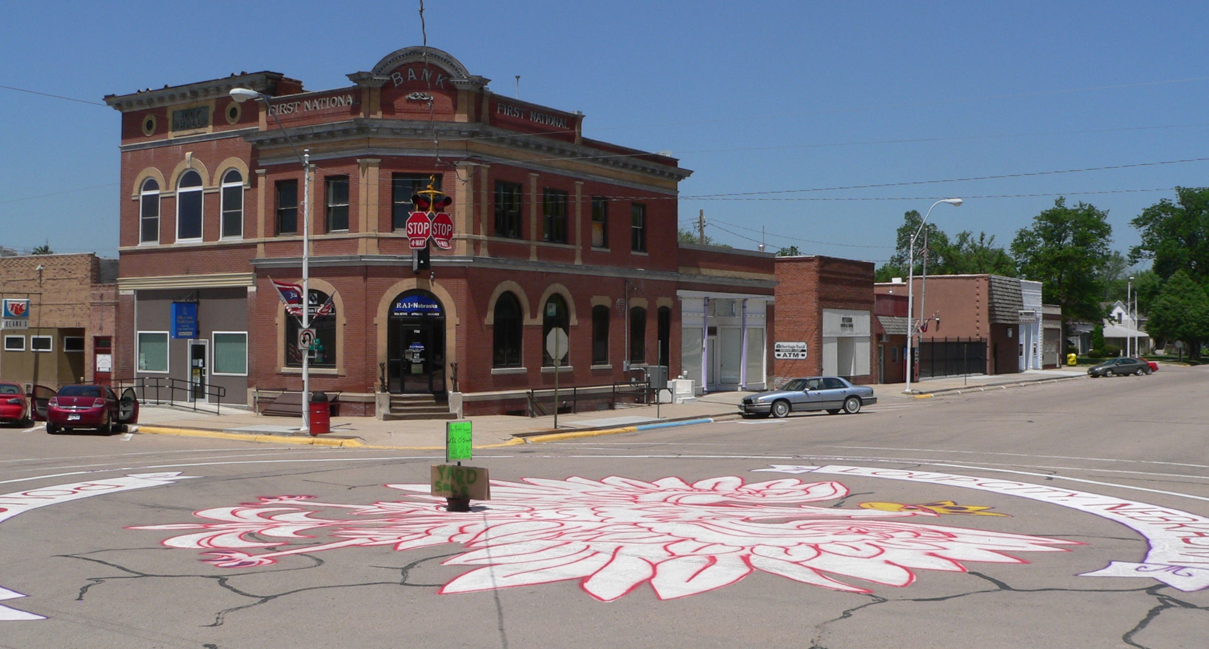 Downtown Loup City, Nebraska: northwest corner of 7th and O Streets, seen from the southeast. O Street runs westward, to the left; 7th runs north, to the right. The painting on the surface of the street in the foreground is the White Eagle from the Polish coat of arms.